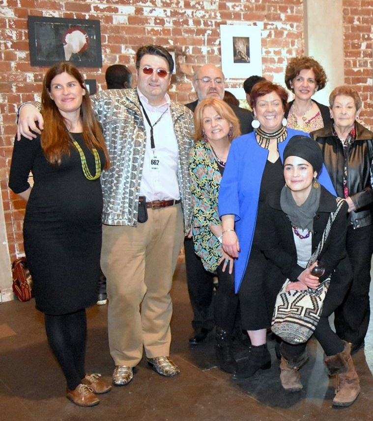 Carmen Novoa and Son Maurice Novoa Ruiz at the Latin American Art Expressions exhibition held at Melbourne's heritage listed building of The Mission to Seafarers